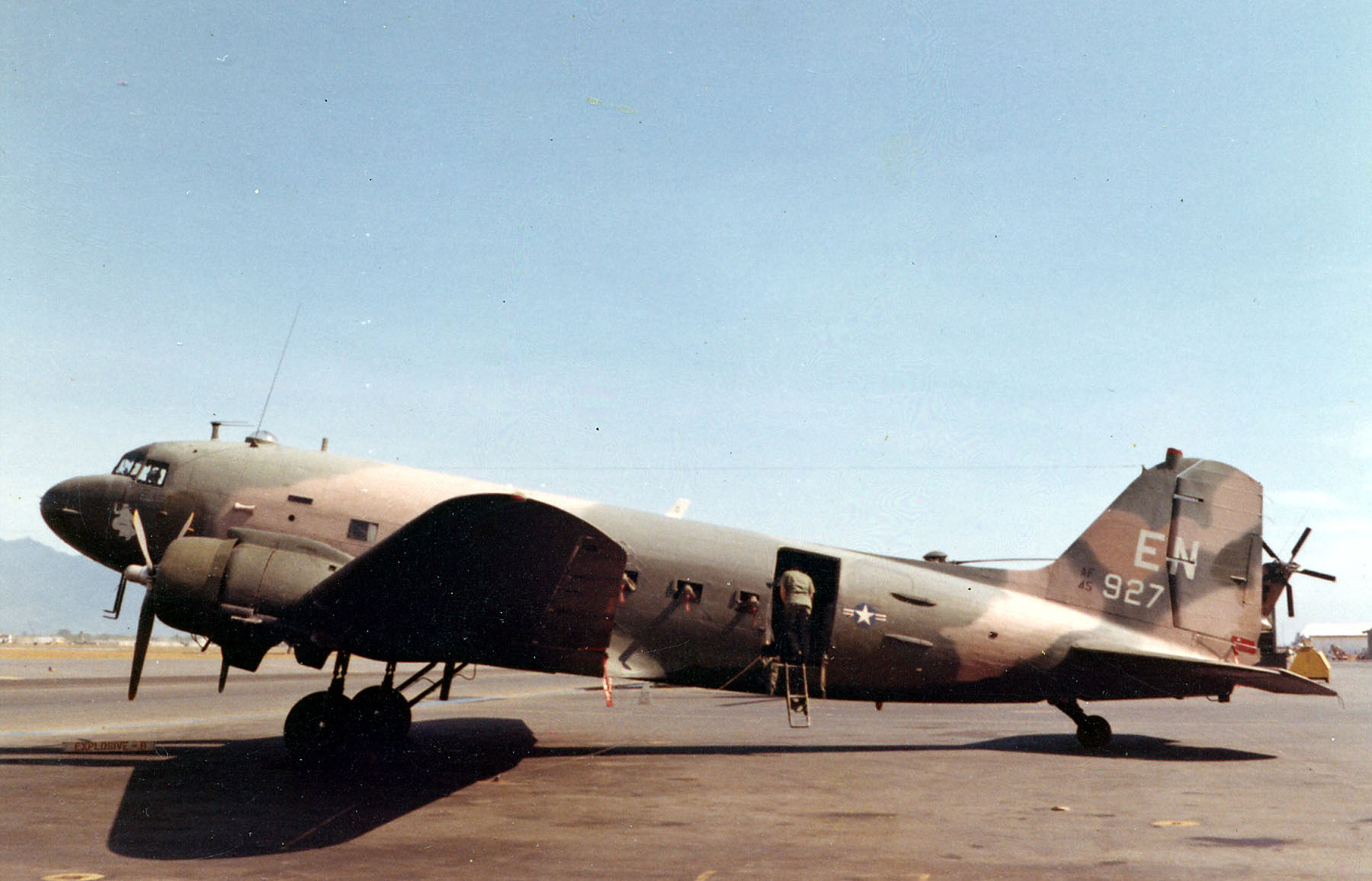 A U.S. Air Force Douglas AC-47D (S/N 45-0927) in September 1968 after the 4th Air Commando Squadron became the 4th Special Operations Squadron of the 14th Special Operations Wing, probably at Nha Trang, South Vietnam.